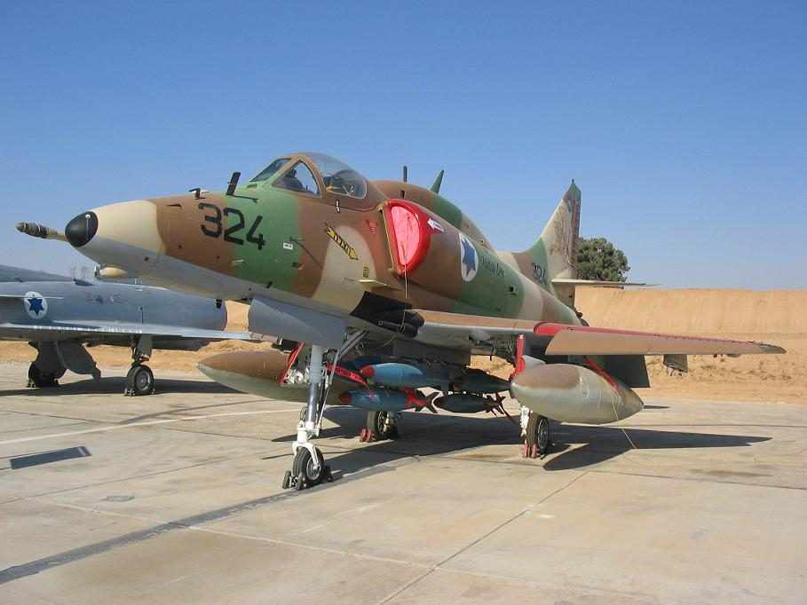 A McDonnell Douglas A-4N Skyhawk of the Israeli Air Force in 2005.